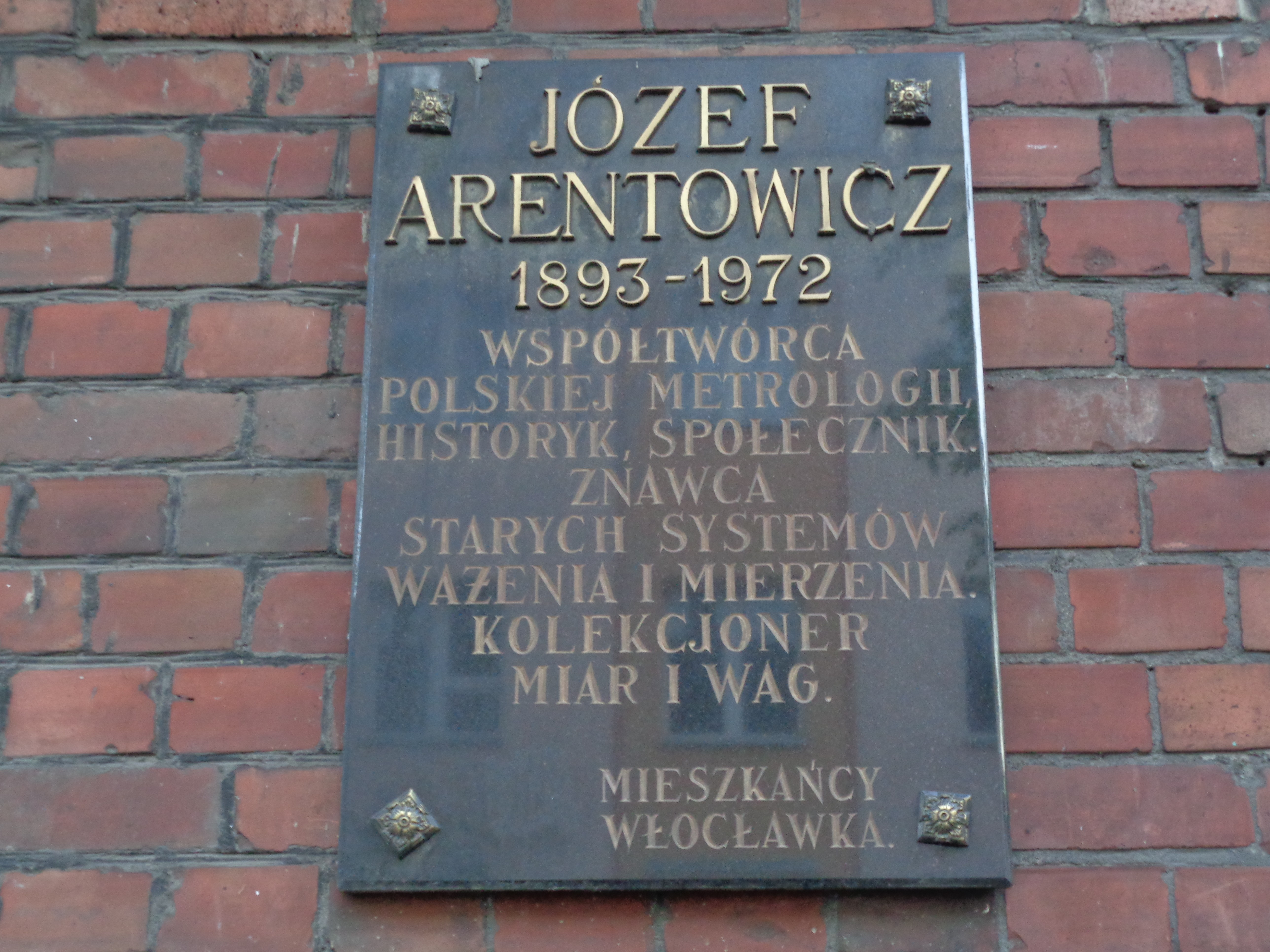 Plaque of polish official, historician and owner of private metrology museum Józef Arentowicz on building at 29 Bojańczyka street in Włocławek, where Arentowicz lived. Plaque was founded in 2004 year by inhabitants of Włocławek.